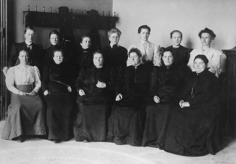 1907. First unicameral female representatives (19 in total) of the diet of Finland. From front left Hilja Pärssinen, Alli Nissinen, Lucina Hagman, Alexandra Gripenberg, Evelina Ala-Kulju, Liisa Kivioja. In the back row from left to right Dagmar Neovius, Hedvig Gebhard, Iida Vemmelpuu, Hilda Käkikoski, Miina Sillanpää, Hilma Räsänen, Maria Laine.